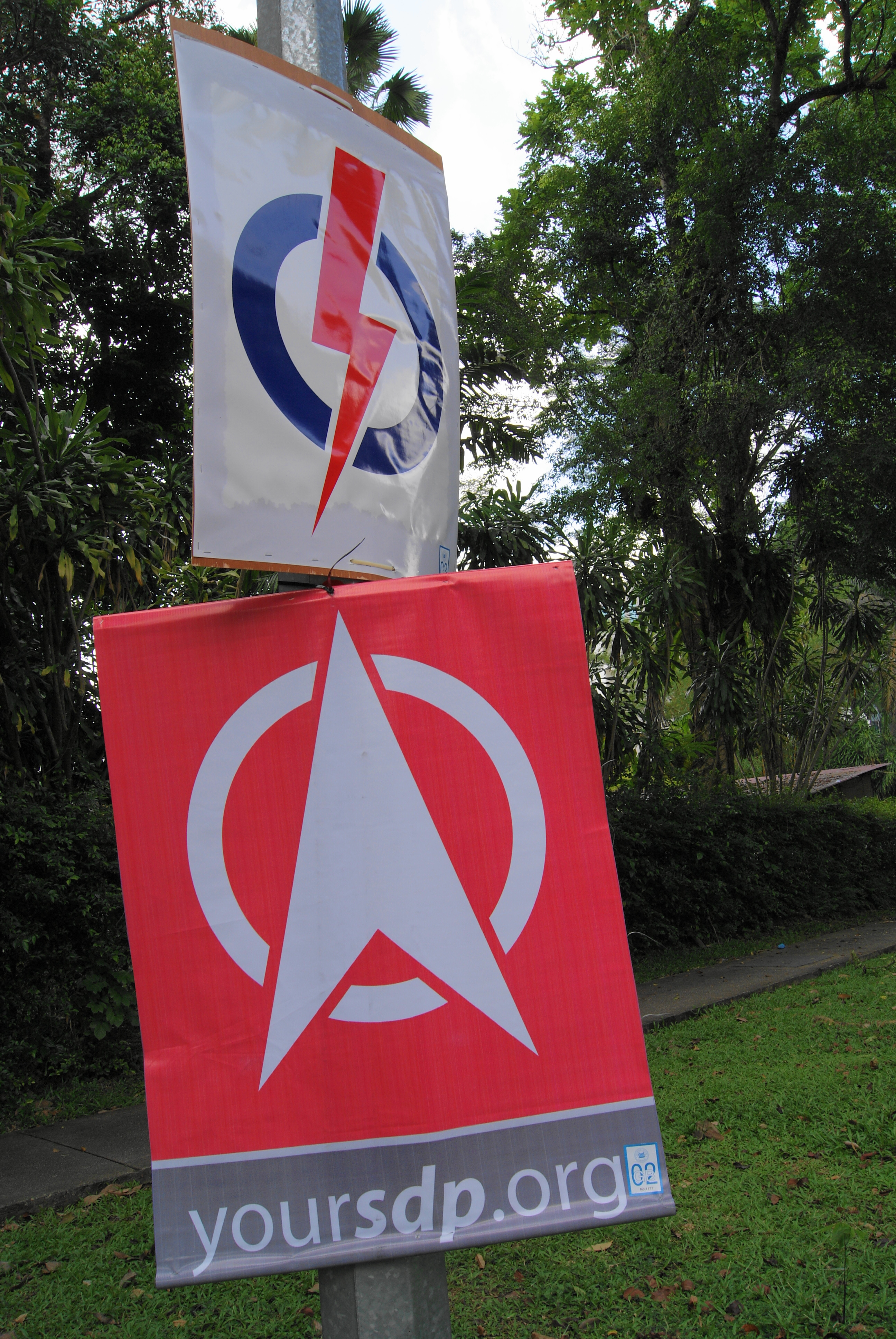 Posters of the People's Action Party (top) and Singapore Democratic Party put up along Clementi Road for the Singaporean general election, 2011.